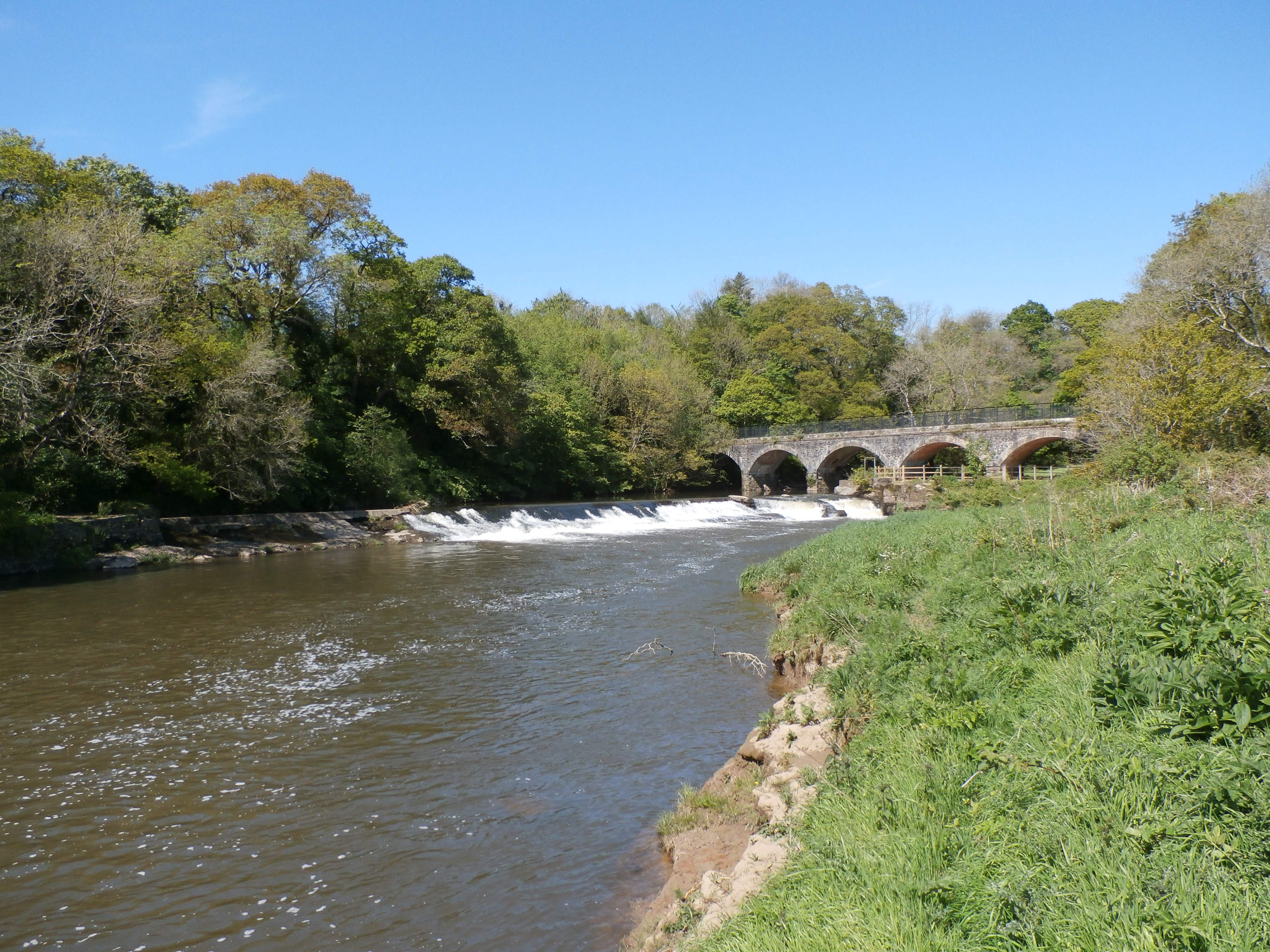 Beam Weir and Old Railway Bridge at Beam on River Torridge, between Great Torrington and Weare Giffard, Devon